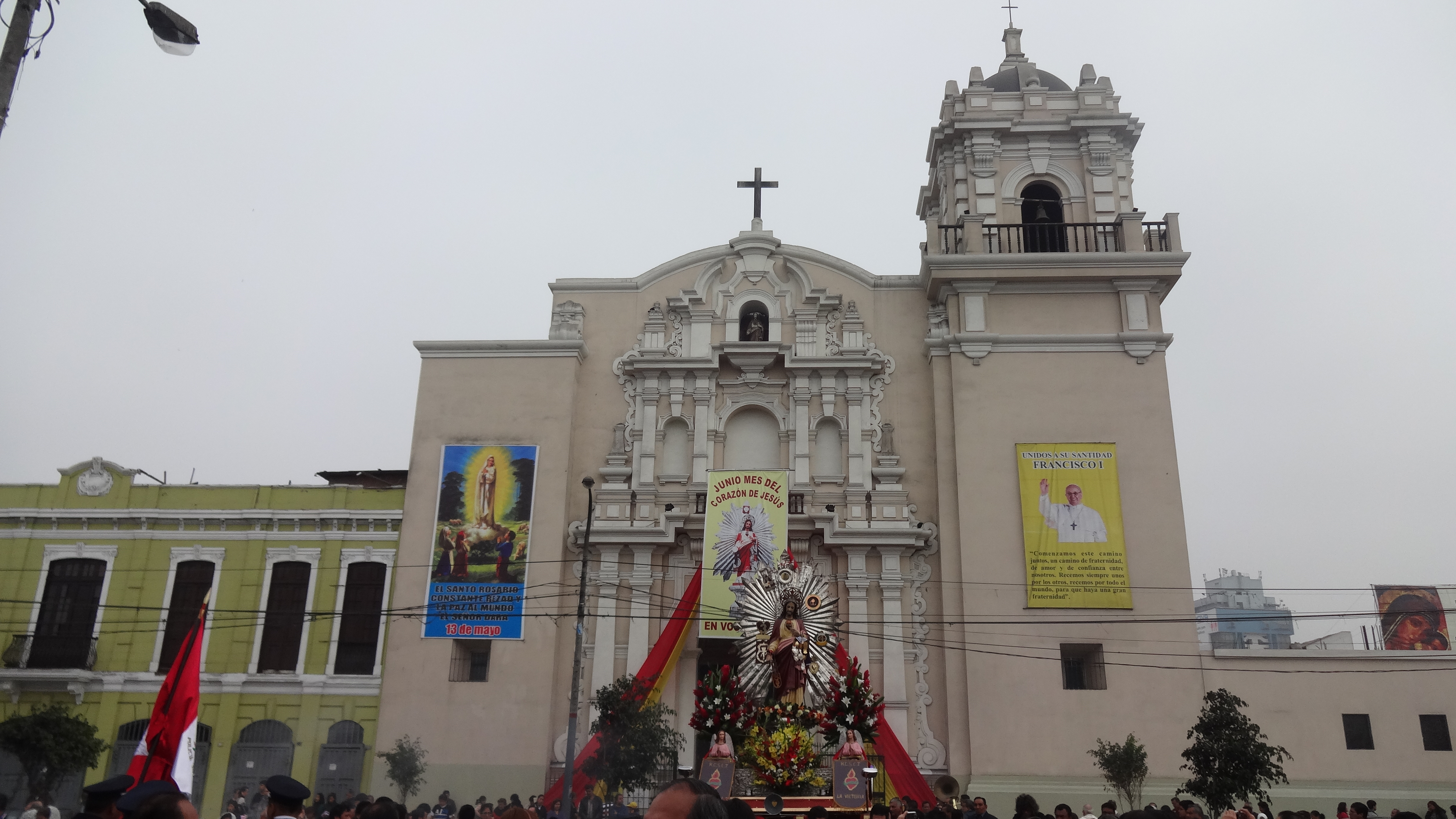 Procession of Sacred Heart - Church of Our Lady of Victories, La Victoria District. Lima, Peru.